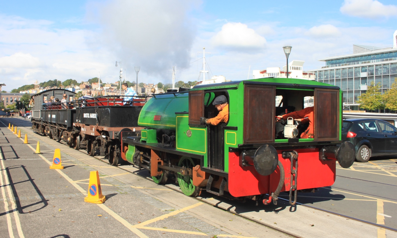 Par Harbour 0-4-0ST Judy propels her train along Wapping Wharf while on load to the Bristol Harbour Railway.